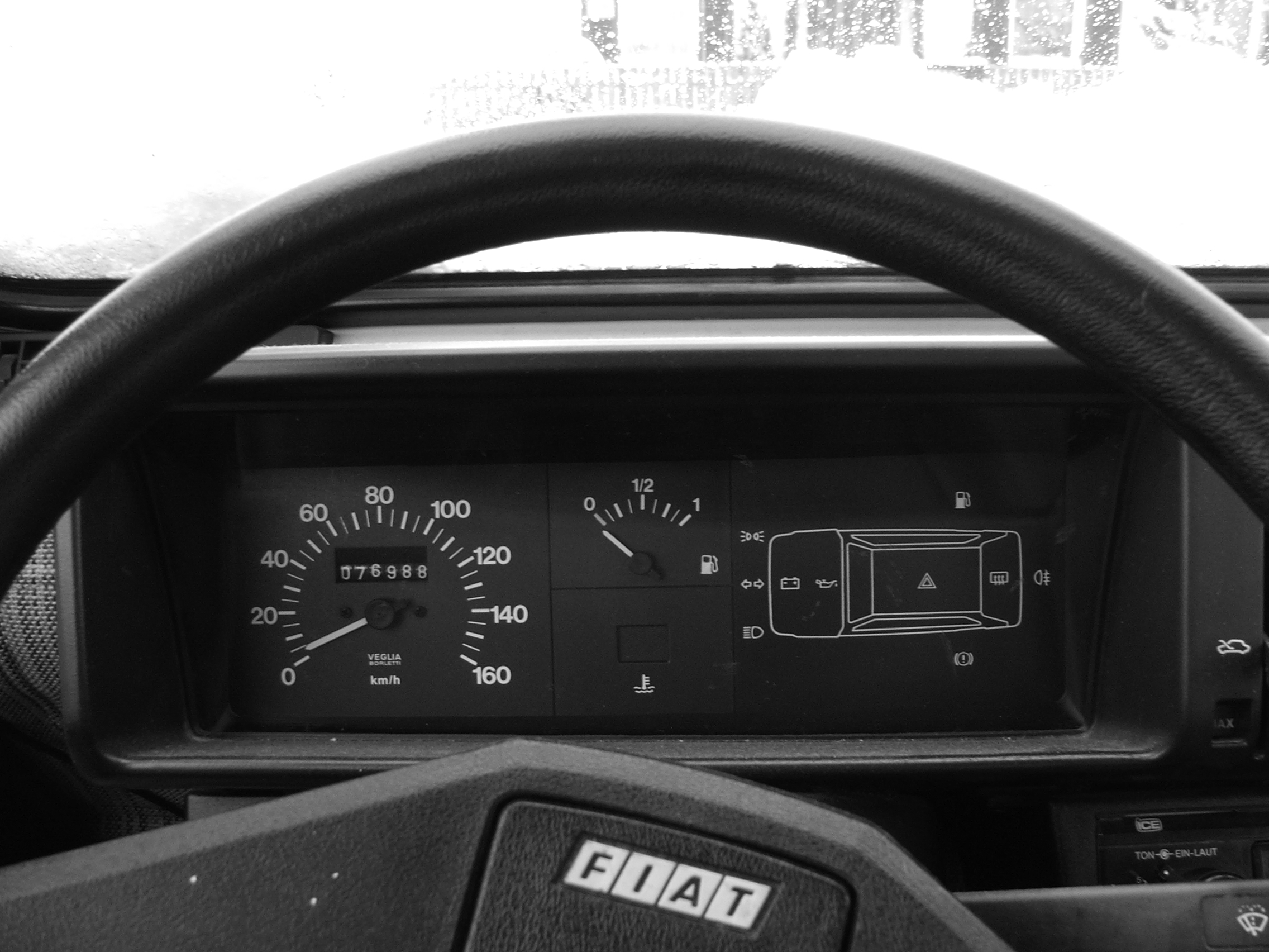 Detail of steering wheel and dashboard of a Fiat Panda.